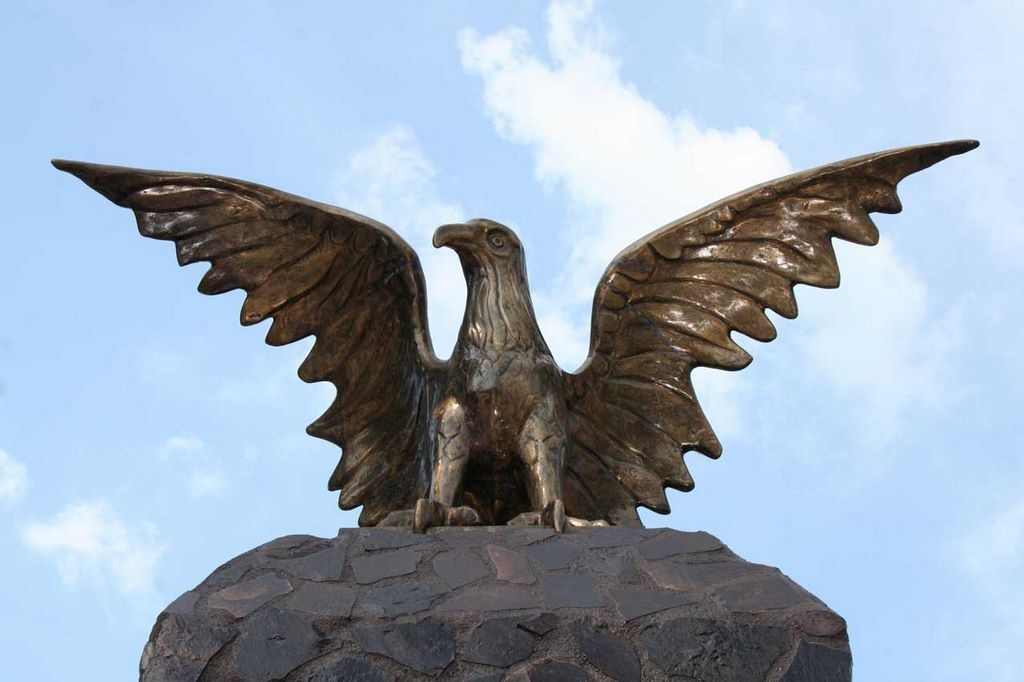 The Turul bird.